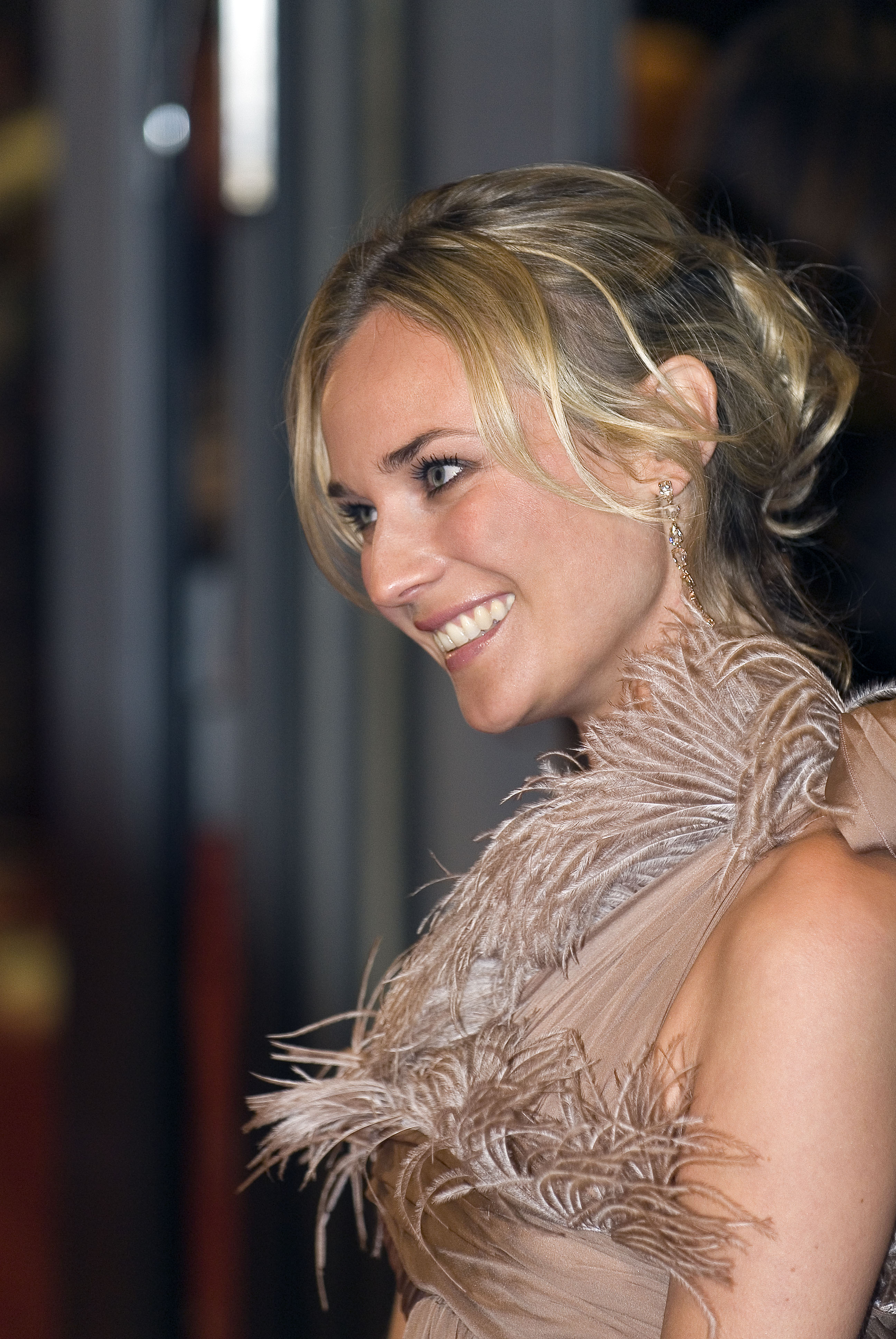 Diane Kruger at the premire of "Goodbye Bafana" at the Berlinalepalace, Potsdamer Platz, Marlene-Dietrich-Platz, Berlin